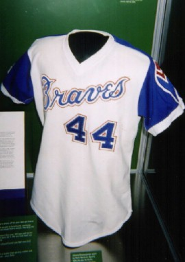 Hank Aaron's jersey worn when he broke Babe Ruth's record. 03:09, 23 May 2005 . . Googie man . . 270×382 (24,156 bytes)